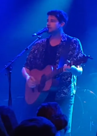 Damian Lynn at Madeline Junos "Was bleibt Tour 2019" in Stuttgart.